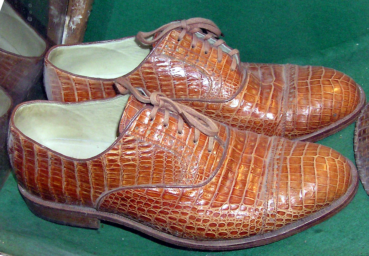 Crocodile skin shoes in a conservation exhibit in Bristol Zoo, Bristol, England. Photographed by Adrian Pingstone in December 2005 and released to the public domain.